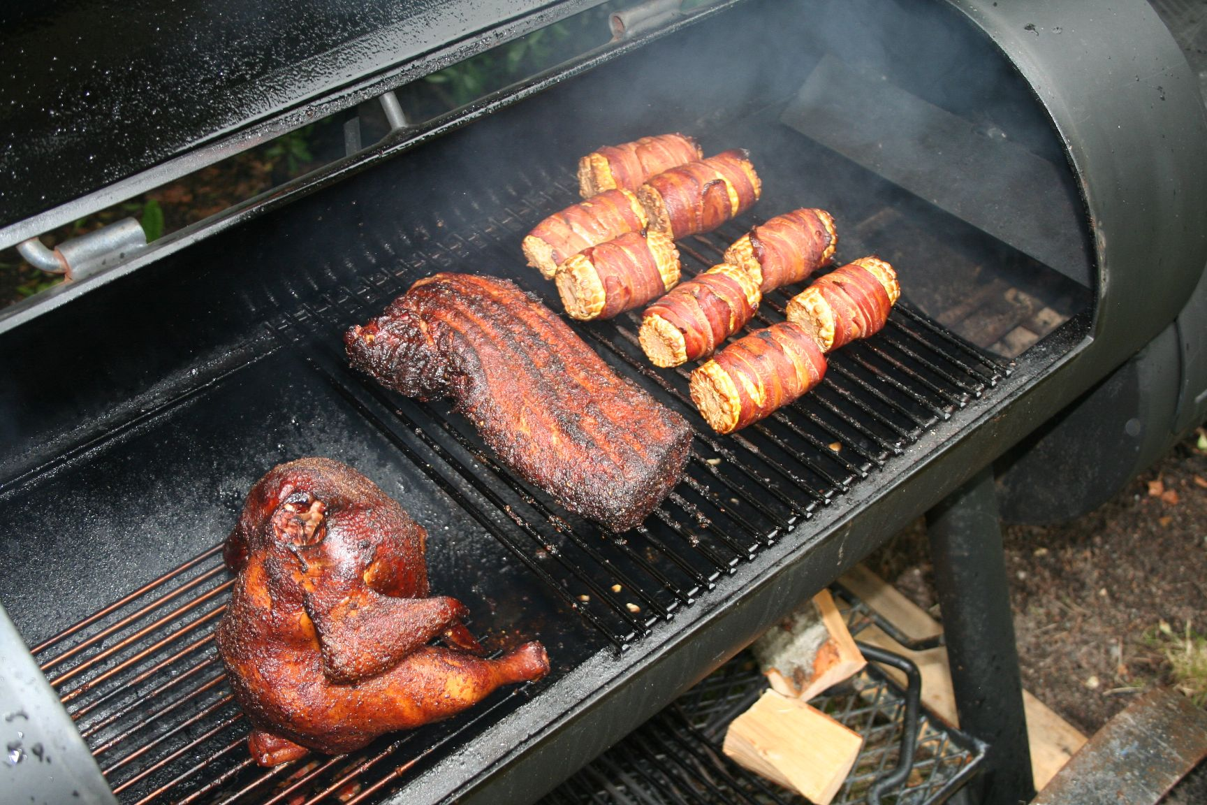 Some chicken, pork and corn in the barbeque